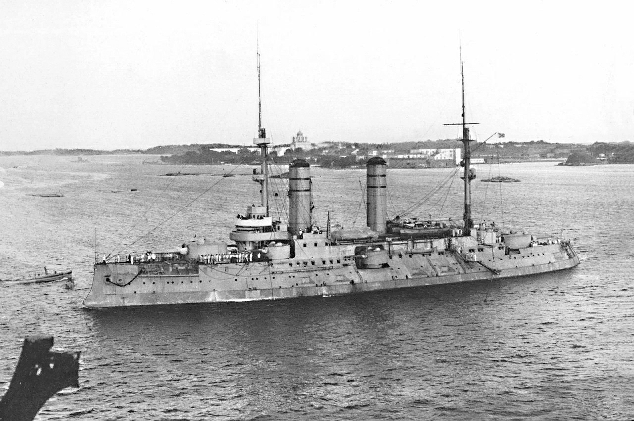 Imperial Russian battleship Tsesarevich in Helsingfors, 1914-1917.